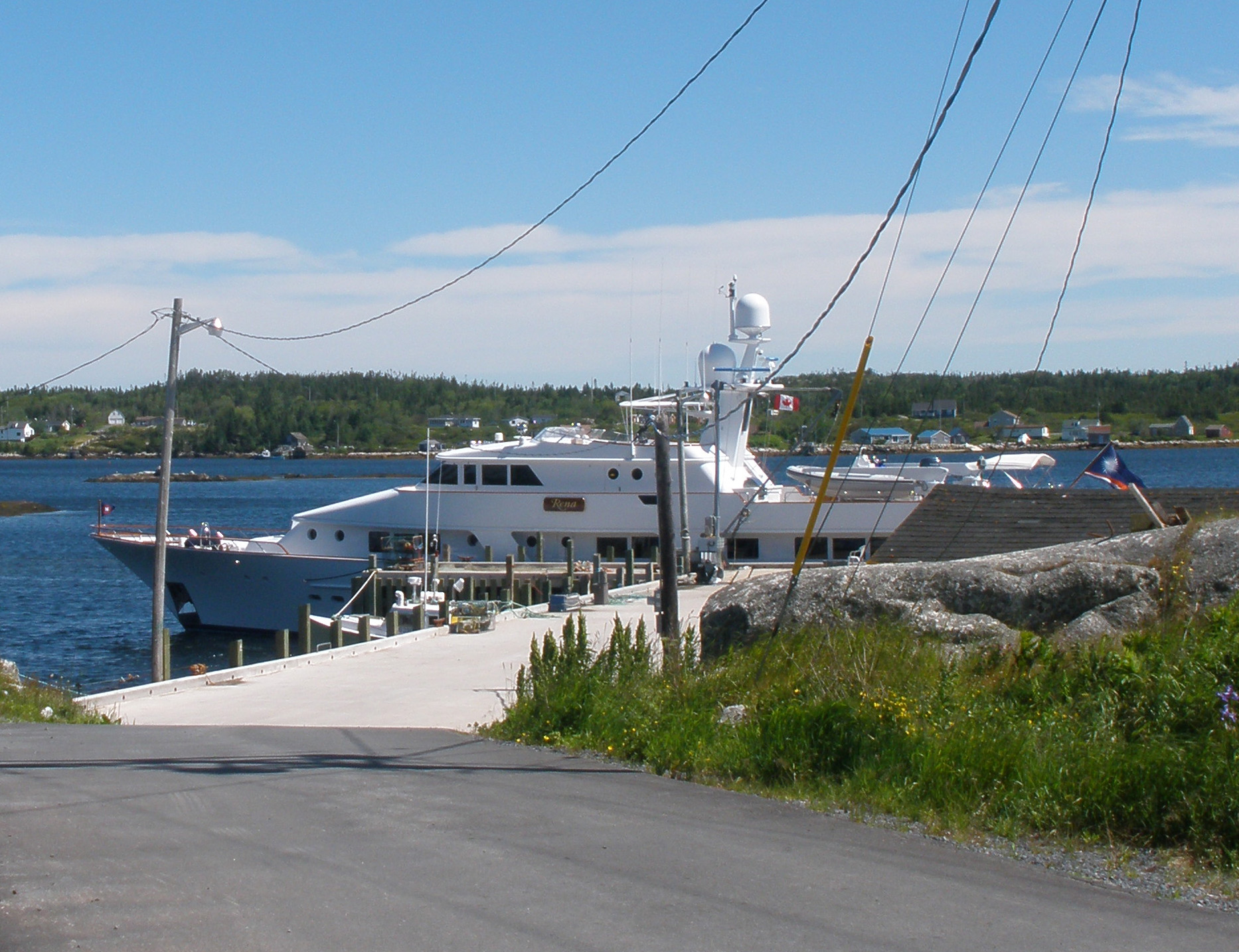 The luxury yacht Rena is pictured here moored at the West Dover Government Wharf on July 10, 2011.